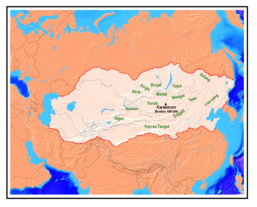 This map shows the empire of Genghis Khan after his death in 1227 AD. The source of this map is: "Großer Historischer Weltatlas. Zweiter Teil ― Mittelalter", Bayrischer Schulbuch-Verlag 1979, ISBN 3-7627-6112-4, p. 56 Монгол: Энэ зураг МЭ 1227 онд нас барсны дараа Чингис хааны Их Монгол улсын байдлыг харуулж байна.